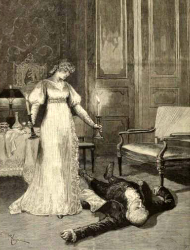 Illustration of Act 4 of Sardou's La Tosca printed in the journal, Le Théâtre illustrée, 1887